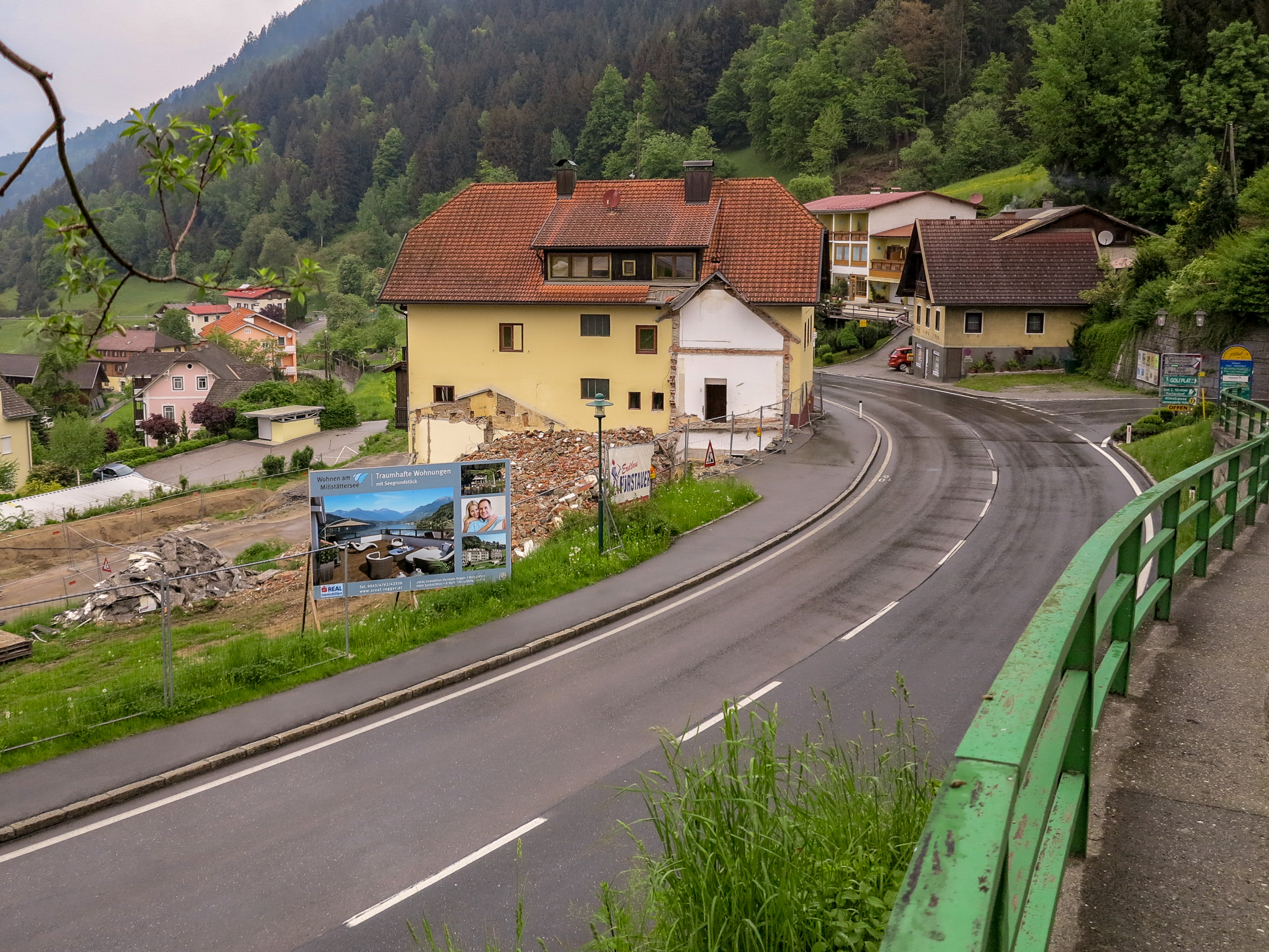 Demolition of the Brugger inn "Gasthaus Brugger" in Dellach in the municipality of Millstatt in Carinthia / Austria / EU. In the middle the main road B98 near Lake Millstatt